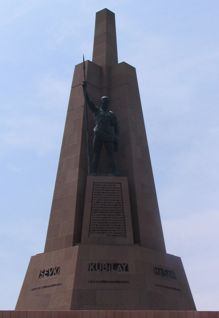 Monument to the Martyrs Kubilay, Hasan and Şevki at Kubilay Barracks, Menemen, Turkey.